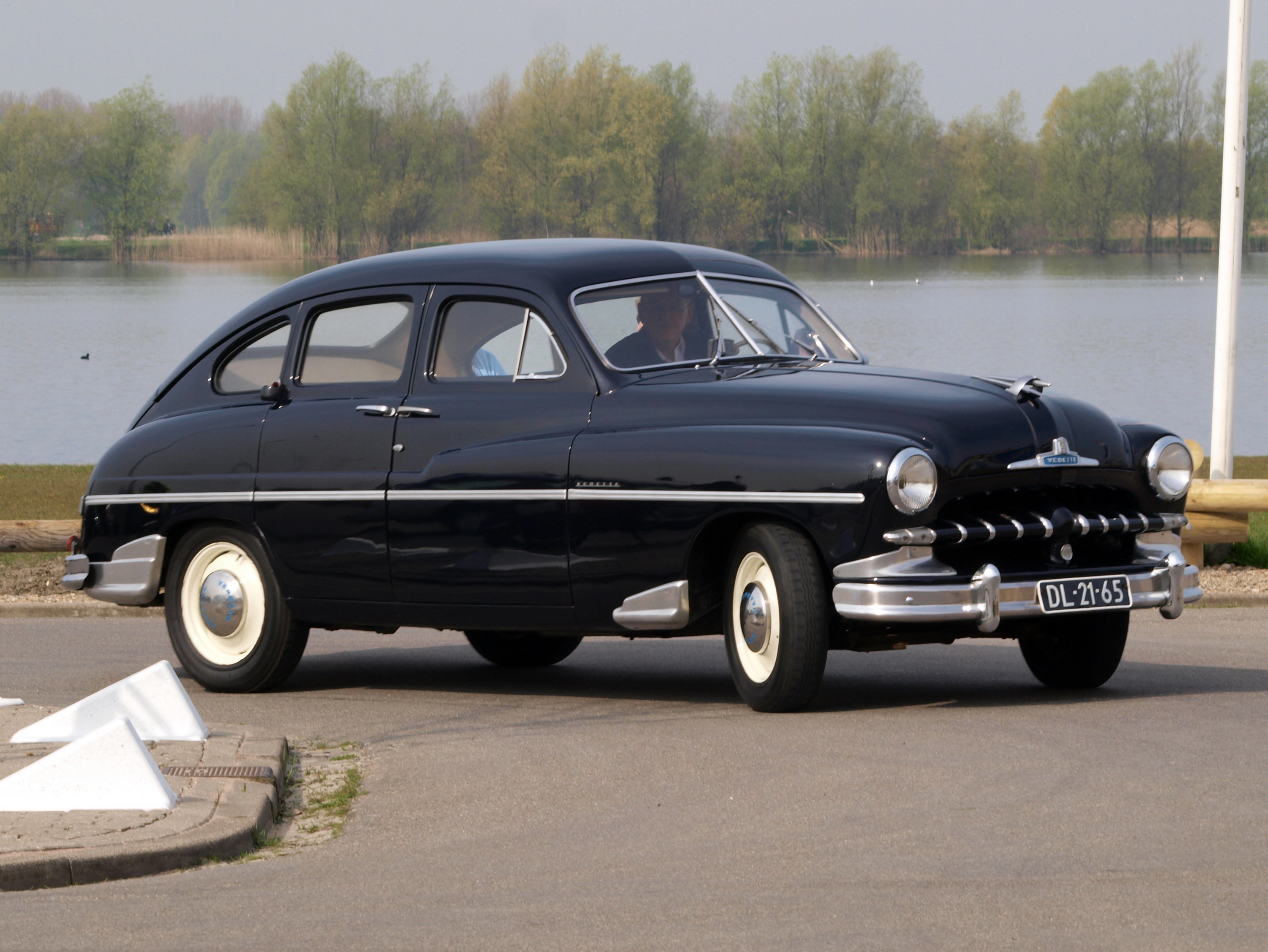 Cars and motorcycles photographed at the Voorschotense Oldtimer Vereniging Show, Valkenburgse meer, The Netherlands.